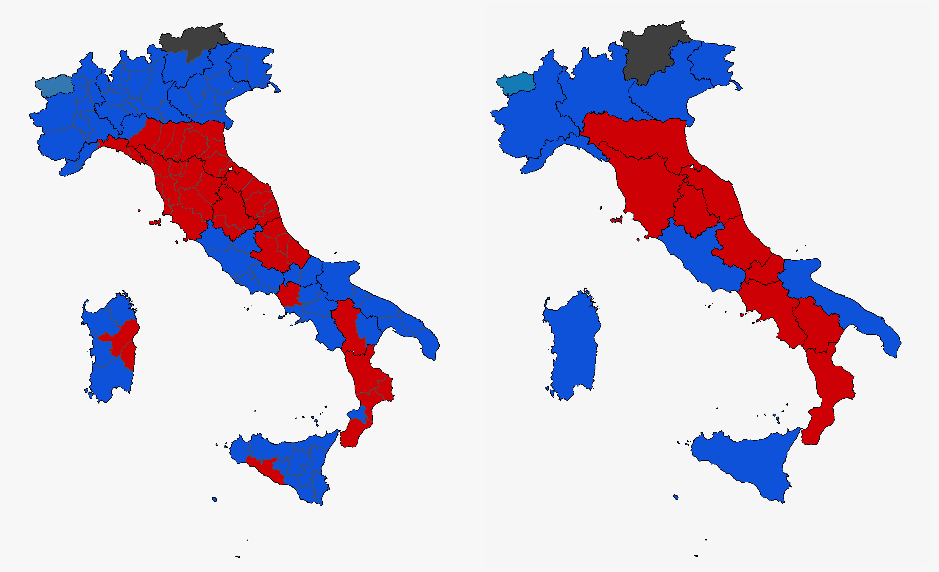 Election maps of Italian general election, 1994